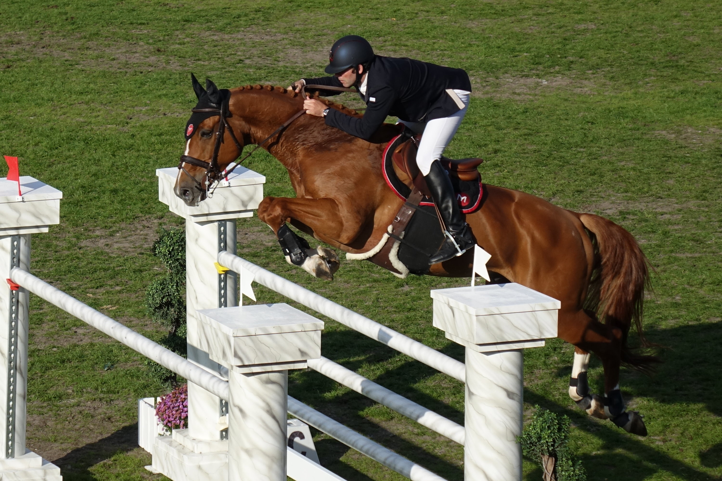 Benjamin Barbot and O'Z du Moulin, French Jumping Championship "Master Pro" 2015 at Fontainebleau, France